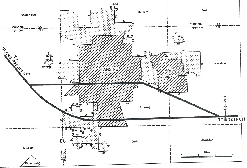 City map from the 1955 "Yellow Book" of Interstate Highway System plans Interstates in today's terms I-96 I-496